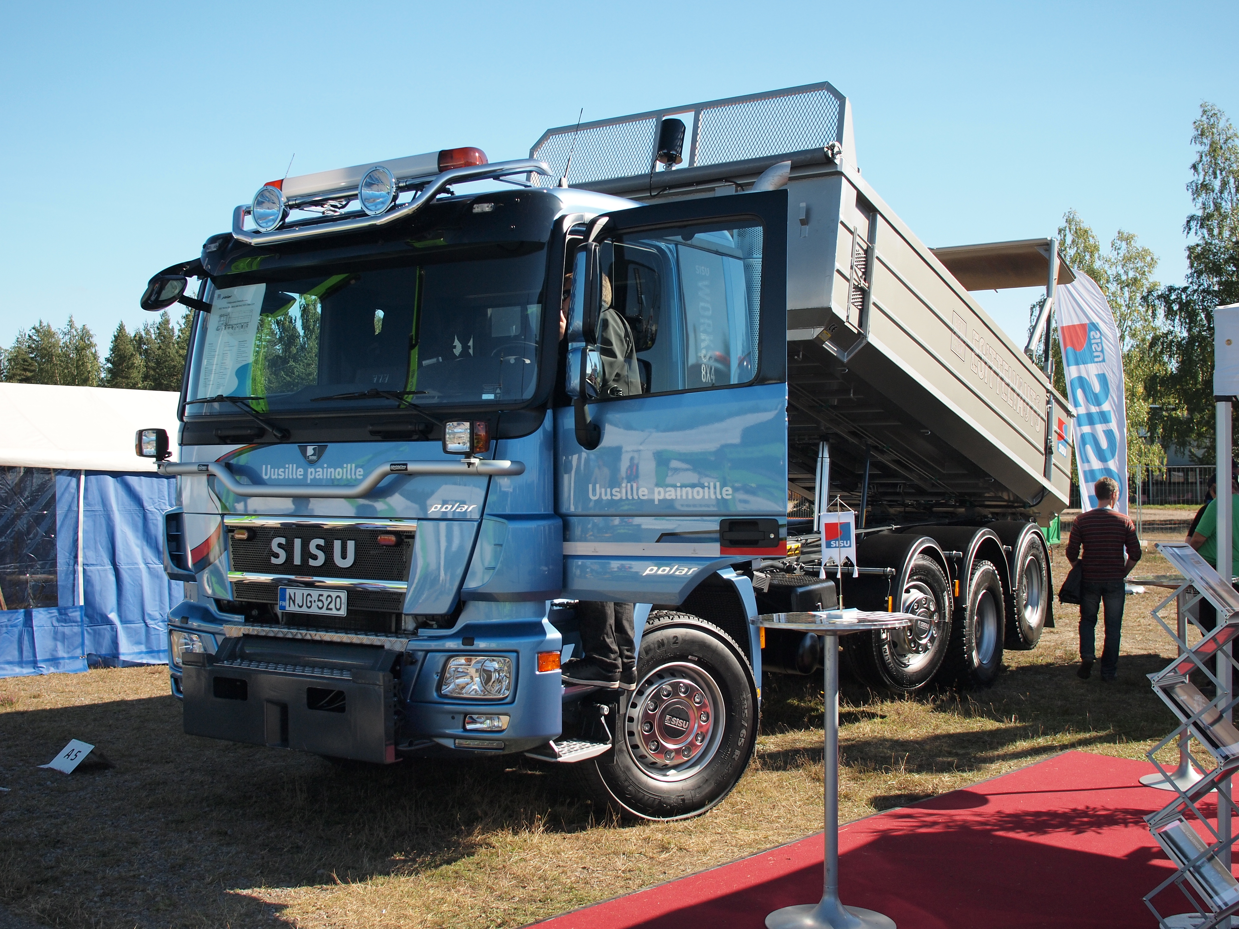 Sisu Works DK16M K-AKK-8x4/335+140+137 in Hyvinkää, Finland.